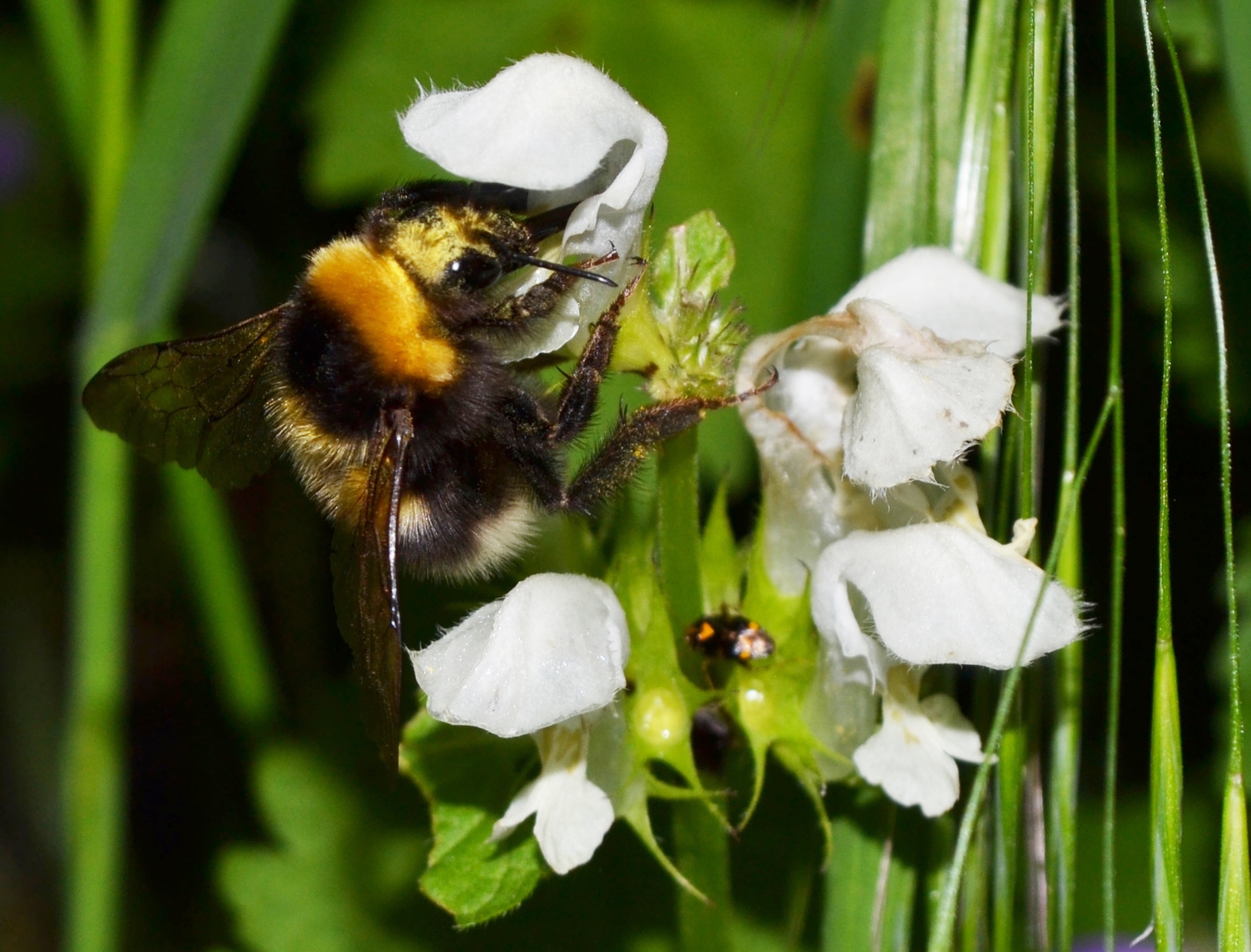 Yellow-haired male feeding from Lamium album "deadnettle" flowers